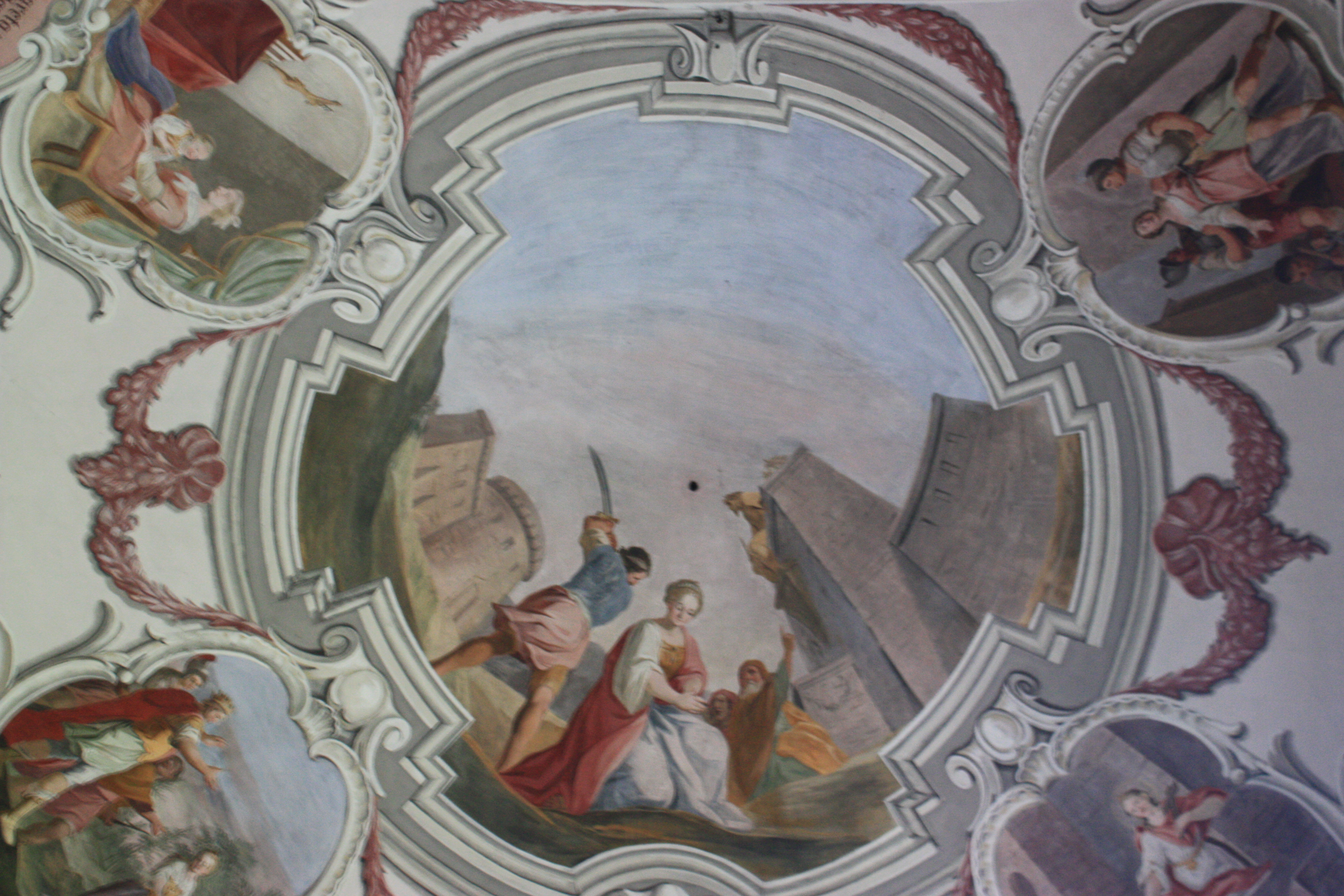 Parish church Saint Margaretha: ceiling painting: Saint Margaret of Antioch; Locality:Dellach; Community:Dellach im Drautal